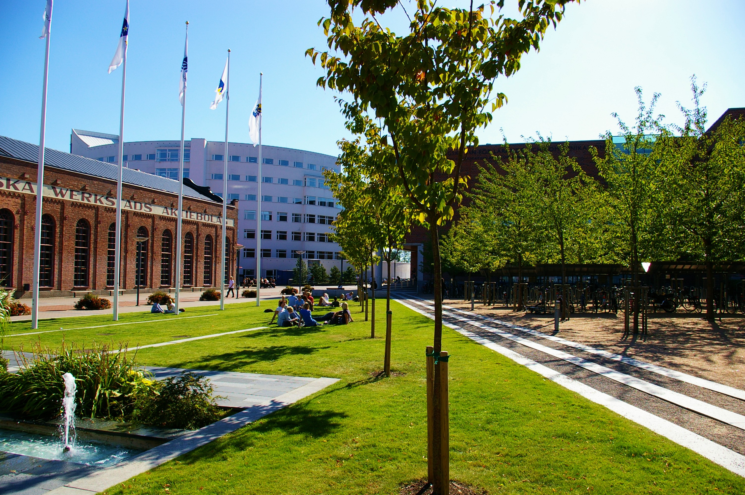 Jönköping University Campus, Sweden